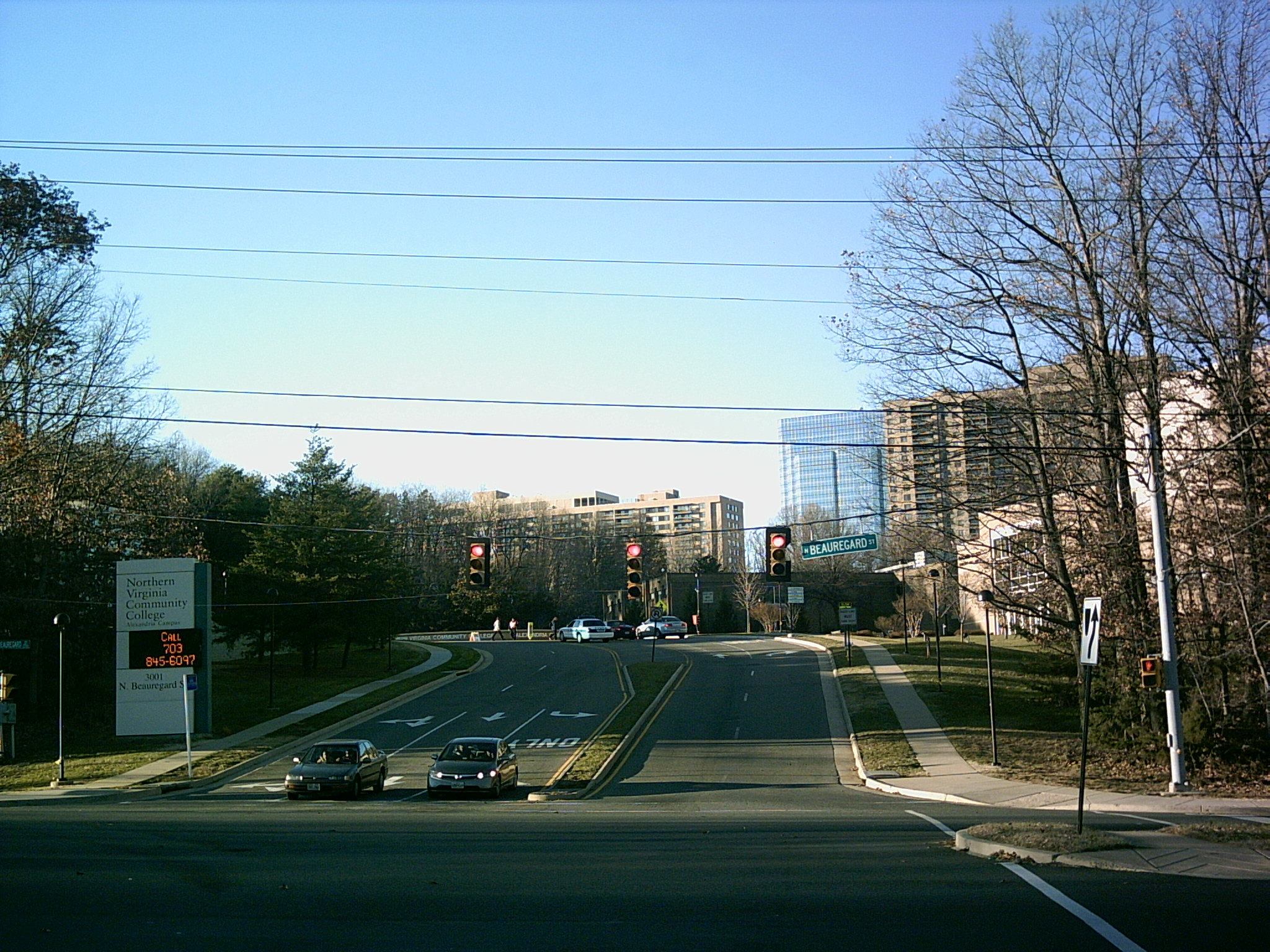 Image taken by me for Wikipedia